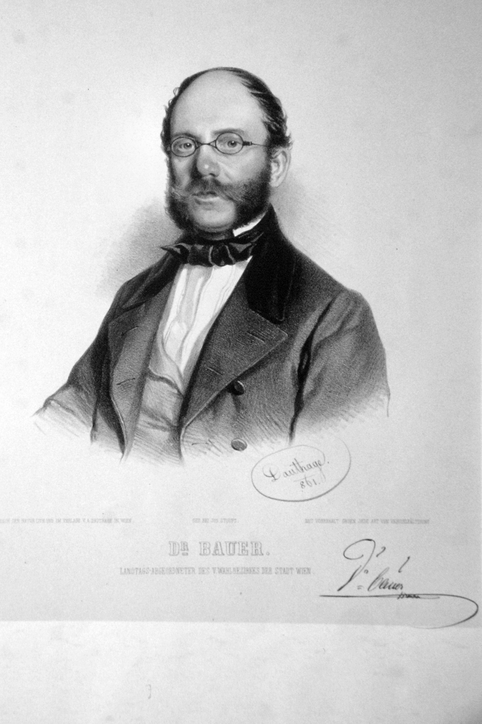 Dr. Josef Bauer (1817-1896) Economist Lithograph by Adolf Dauthage, 1861